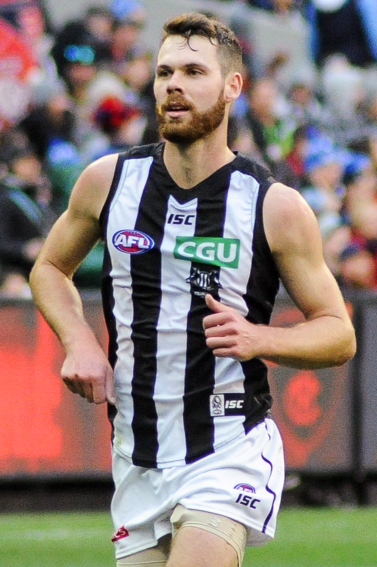 Matthew Scharenberg during the AFL round twelve match between Melbourne and Collingwood on 12 June 2017 at the Melbourne Cricket Ground in Melbourne, Victoria.